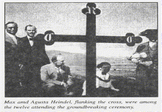 Groundbreaking ceremony at Mount Ecclesia (October 28, 1911): planting a large Cross with the initials C.R.C.